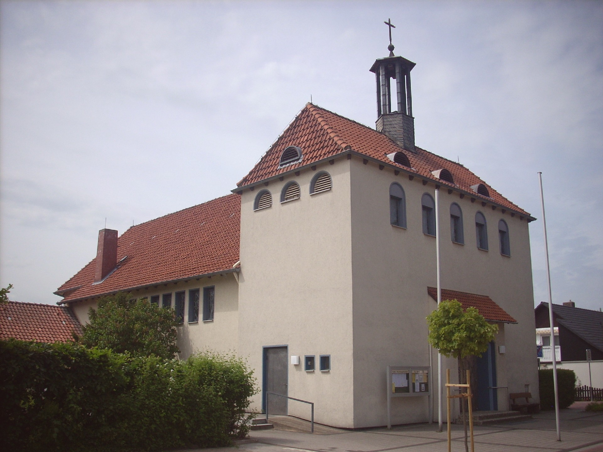 St. Maria Catholic Church, Pattensen